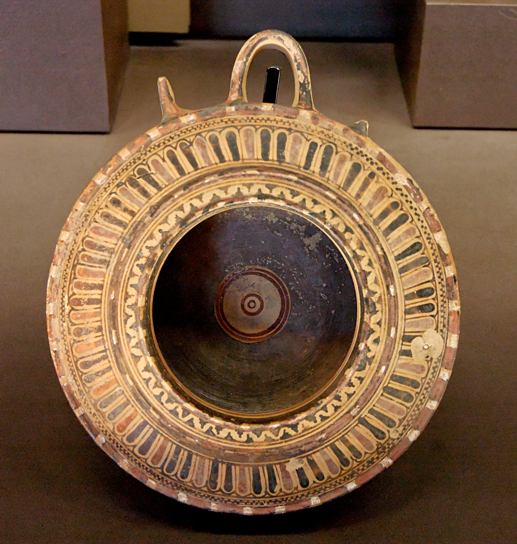 Corinthian kothon, 550–500 BC.